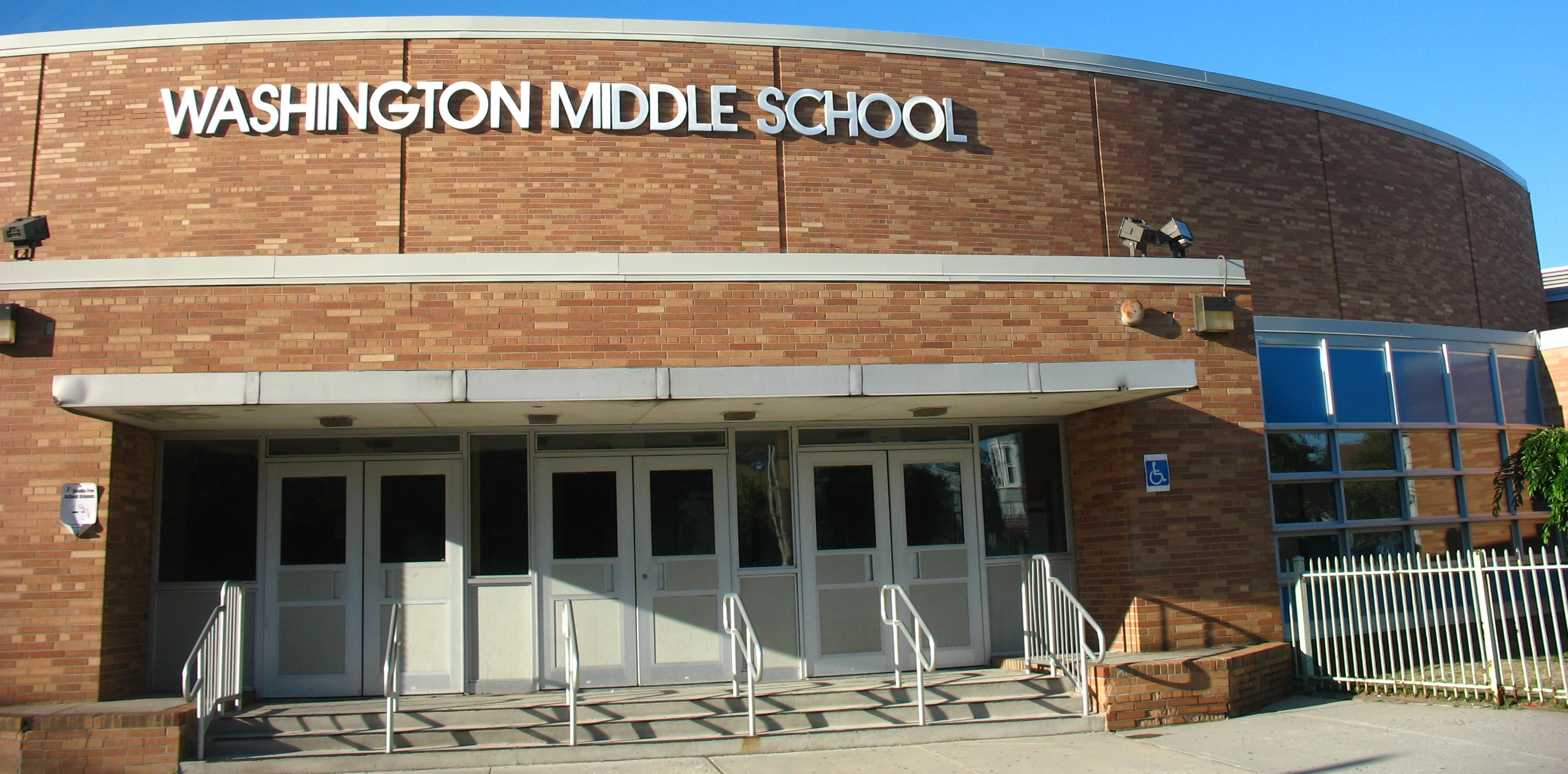 The image shows the Washington Middle School of Harrison, New Jersey.